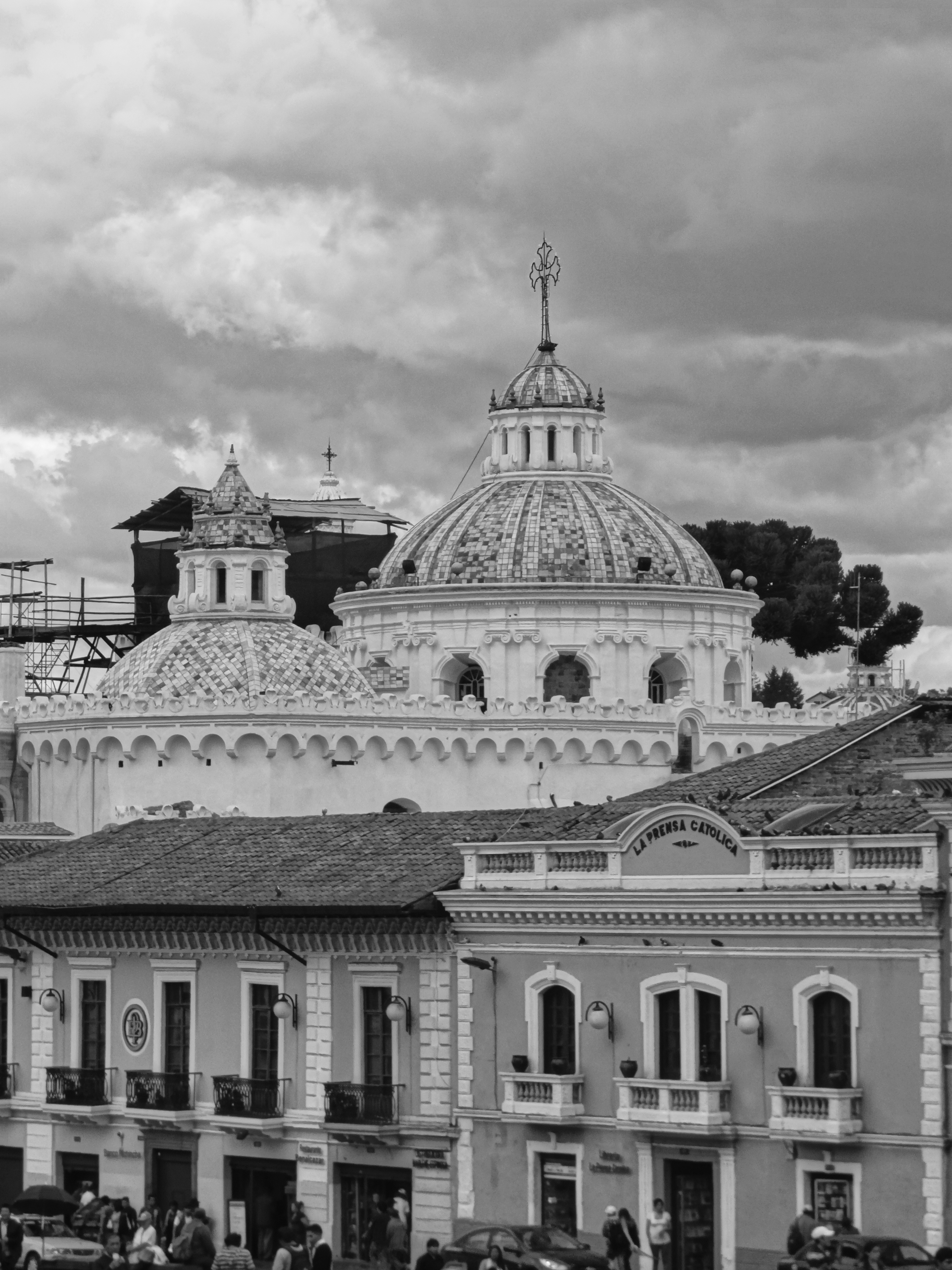 Dome roof of the La Iglesia de la Compañía de Jesús (